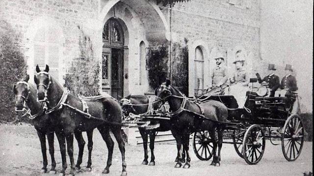 Le comte Joseph Rochaïd Dahdah et son épouse devant leur résidence du Château des Deux-Rives